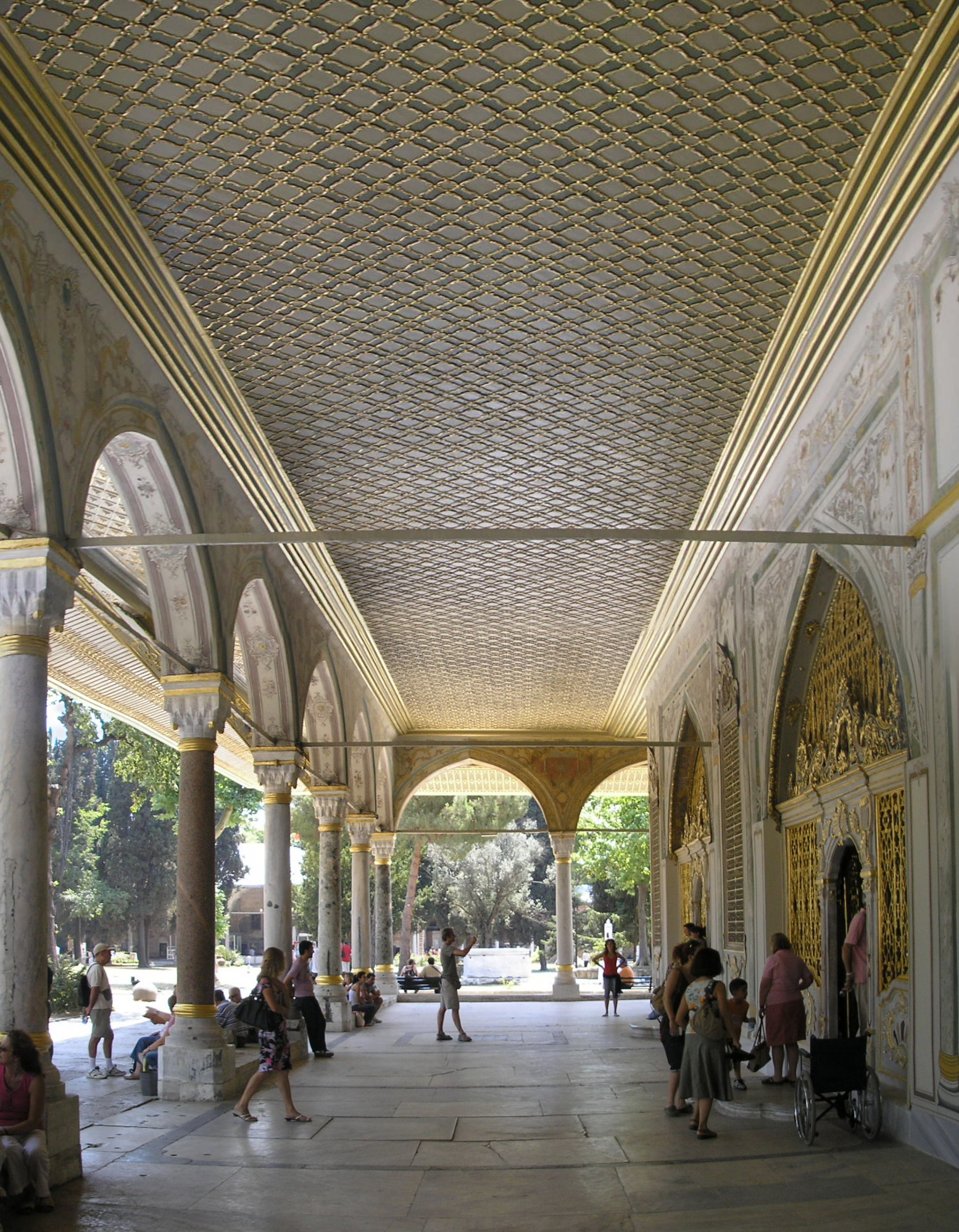 View of the Imperial Council Hall (Divan-ı Hümâyûn) from the outside, in the second court of Topkapi Palace.